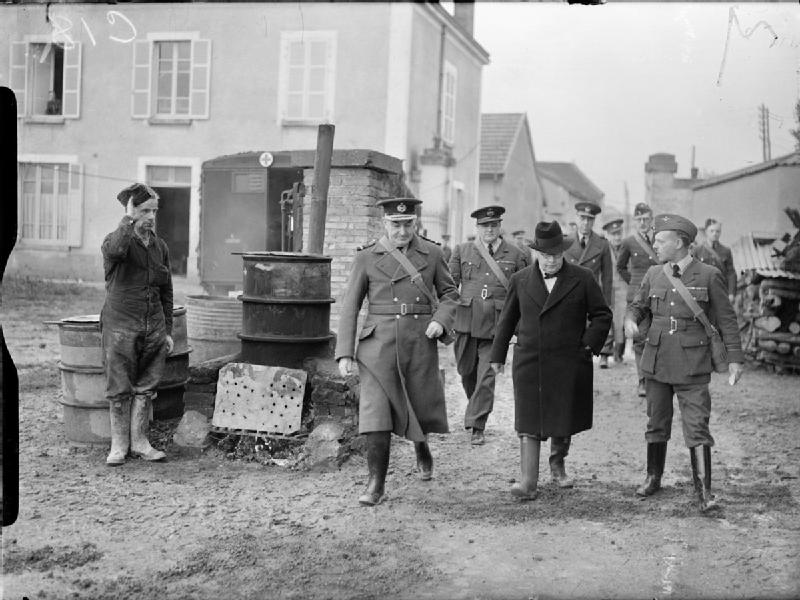 Royal Air Force- France 1939-1940. Sir Kingsley Wood, Secretary of State for Air, accompanied by Air Vice-Marshal P H L Playfair, Air Officer Commanding the Advanced Air Striking Force (left) , passes the boiler and bath quarters of an RAF unit billetted in France.